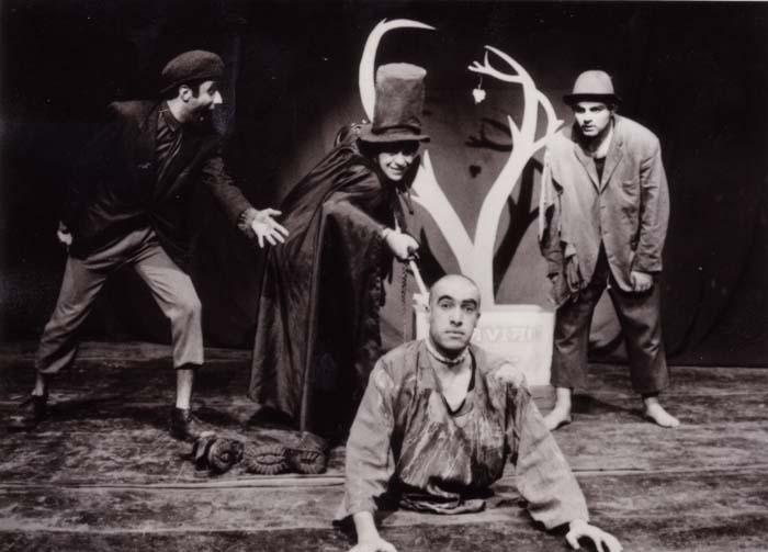 A student production of Waiting for Godot.